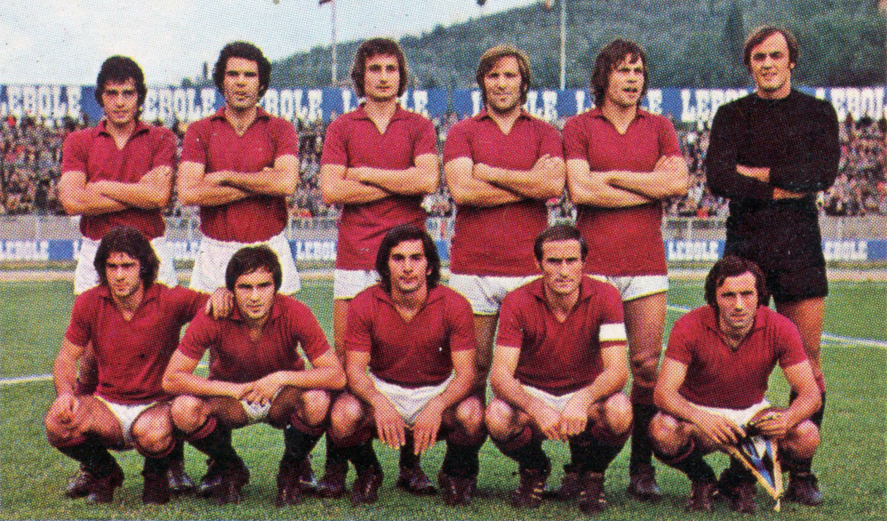 A line-up of U.S. Arezzo in the 1973–74 season. From left to right, standing: Di Prospero, L. Mujesan, P. Cencetti, M. Fara, F. Righi, G. Alessandrelli; crouched: P. Piras, D. Neri, Giulianini, L. Tonani (captain), B. Vergani.